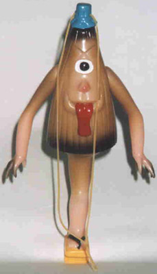 A Kasa-obake toy from Japan.